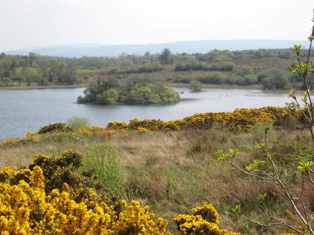 Crannog on Carrigeencor Lough Crannogs were early settlements on artificial islands in loughs. They are a common feature in both Ireland and Scotland.